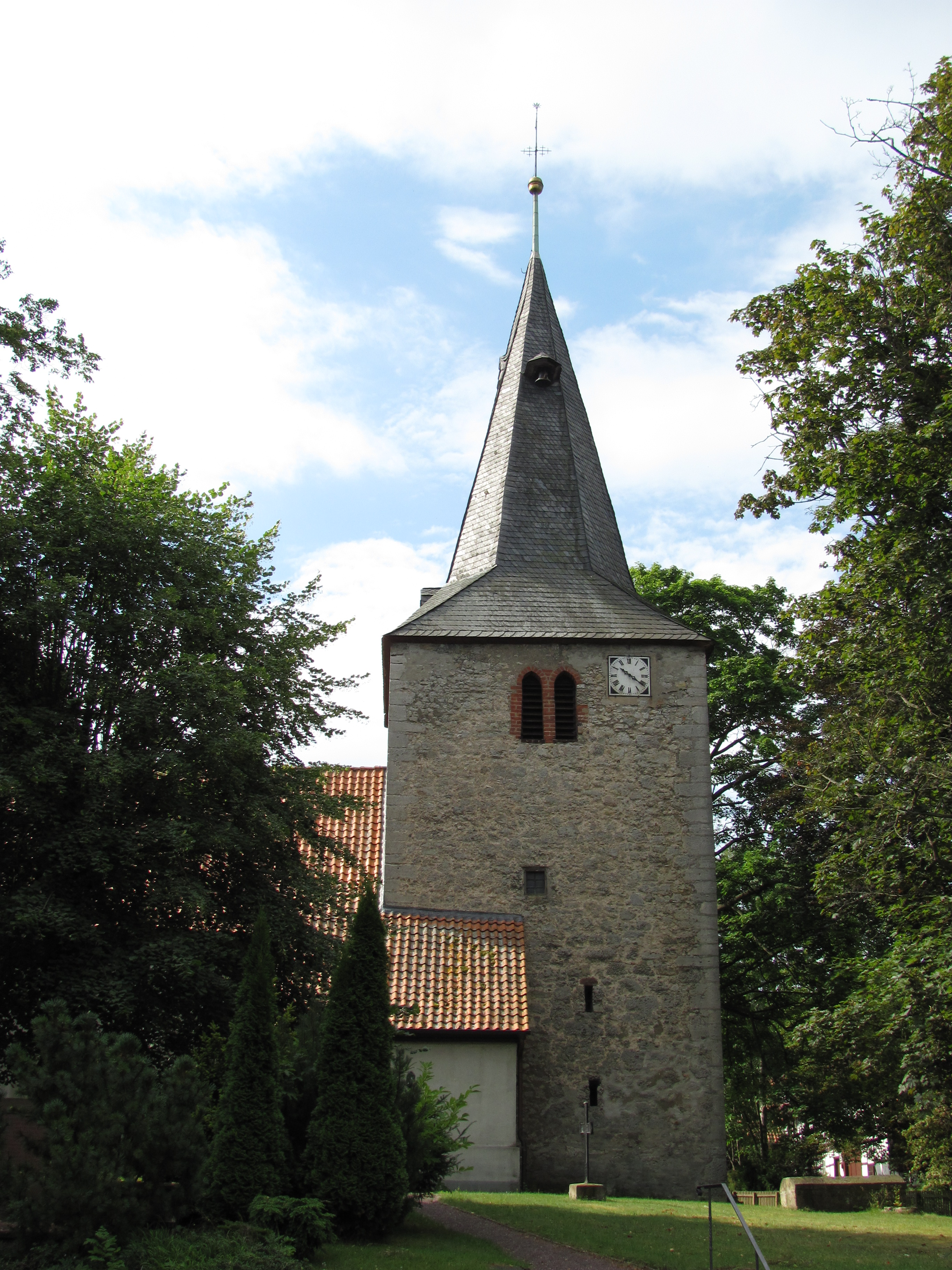 Protestant Church, Eberholzen, Germany